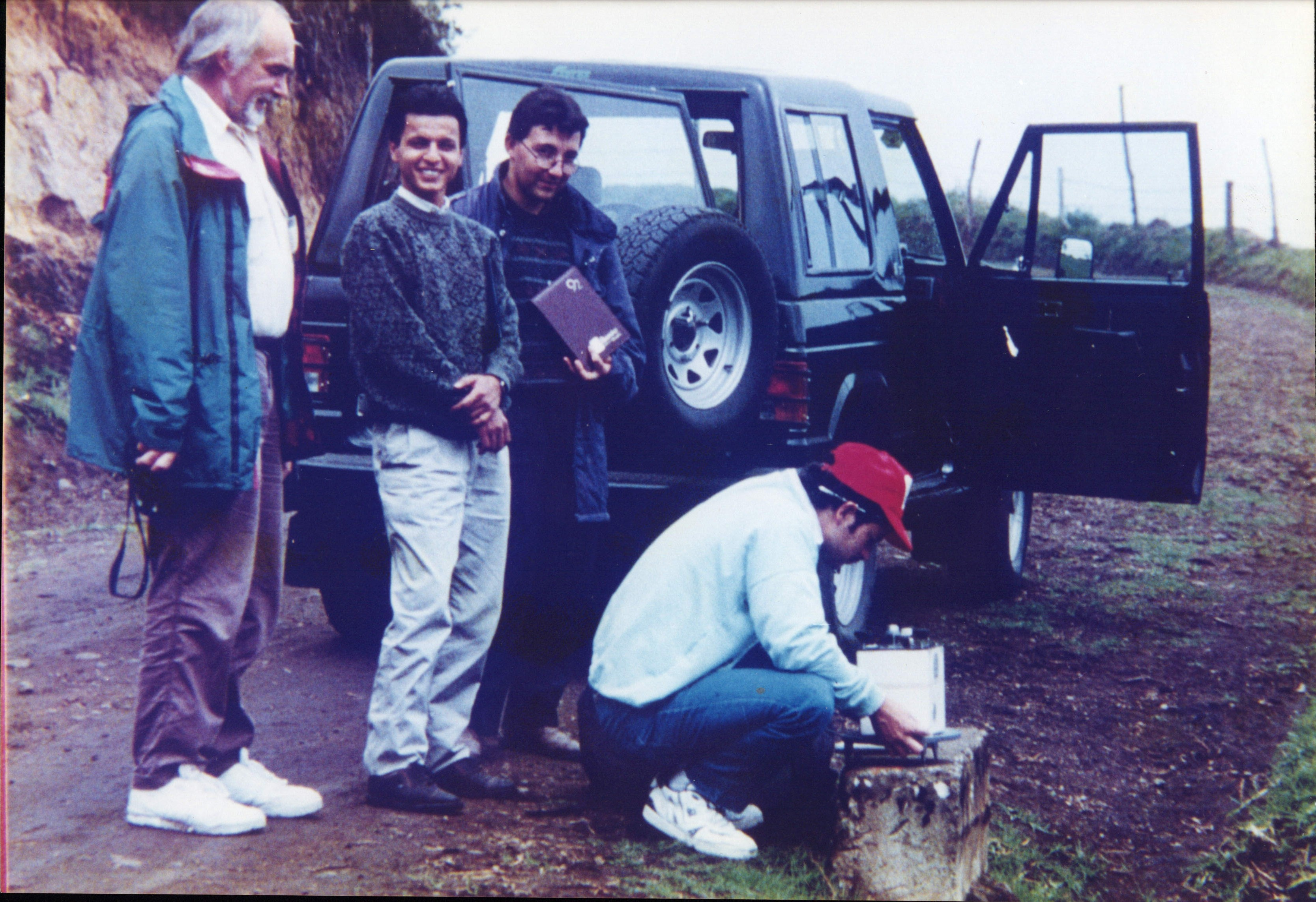 The volcanologists and geologists Geoffrey Charles Brown and Fernando Cuenca (left) with peers during the preparation of research field work at the volcano Galeras in Colombia. A few hours later, Brown, Cuenca, four other scientists and three tourists died in an unexpected eruption.